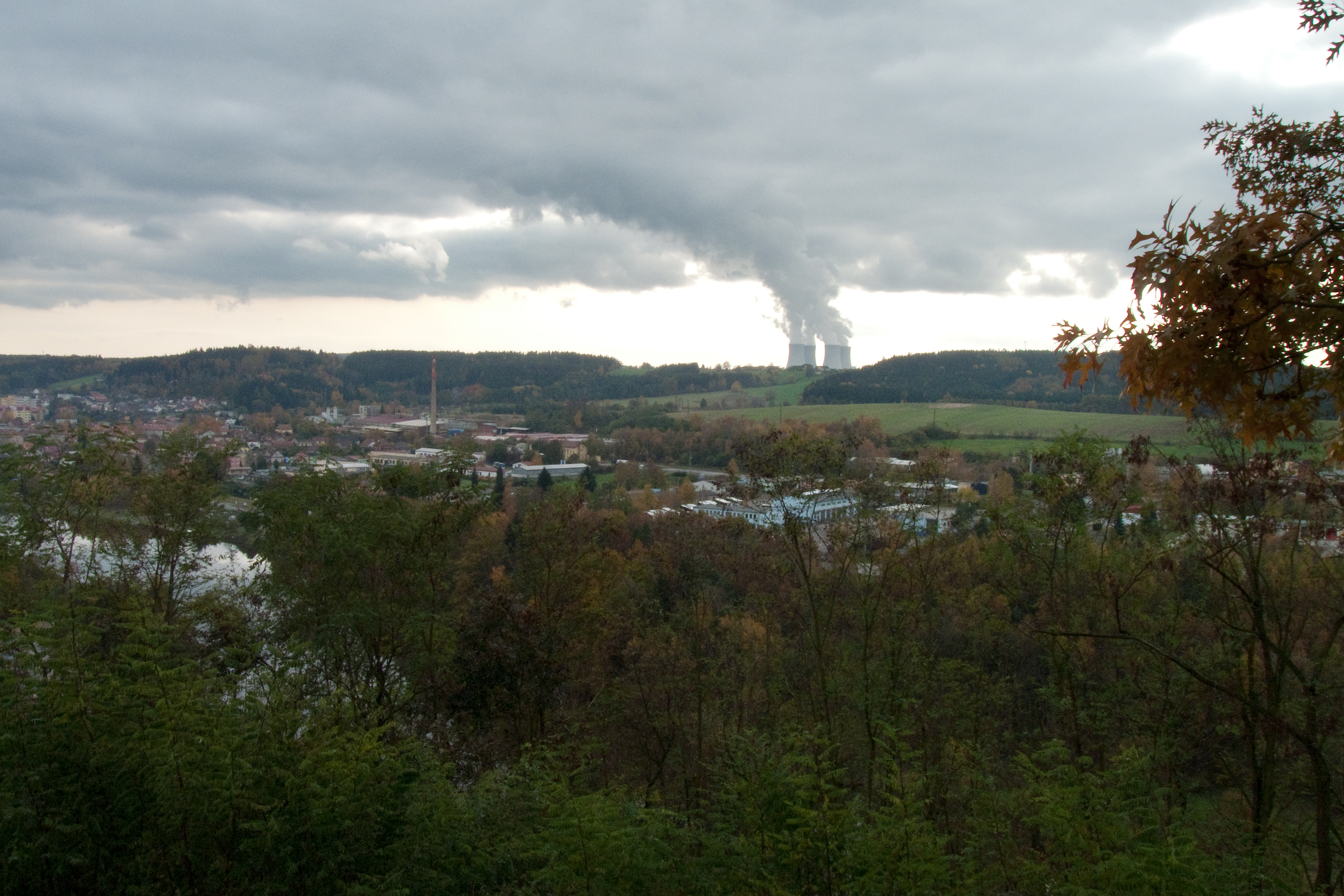 View of Temelín power plant behind Týn nad Vltavou, České Budějovice district, Czech Republic